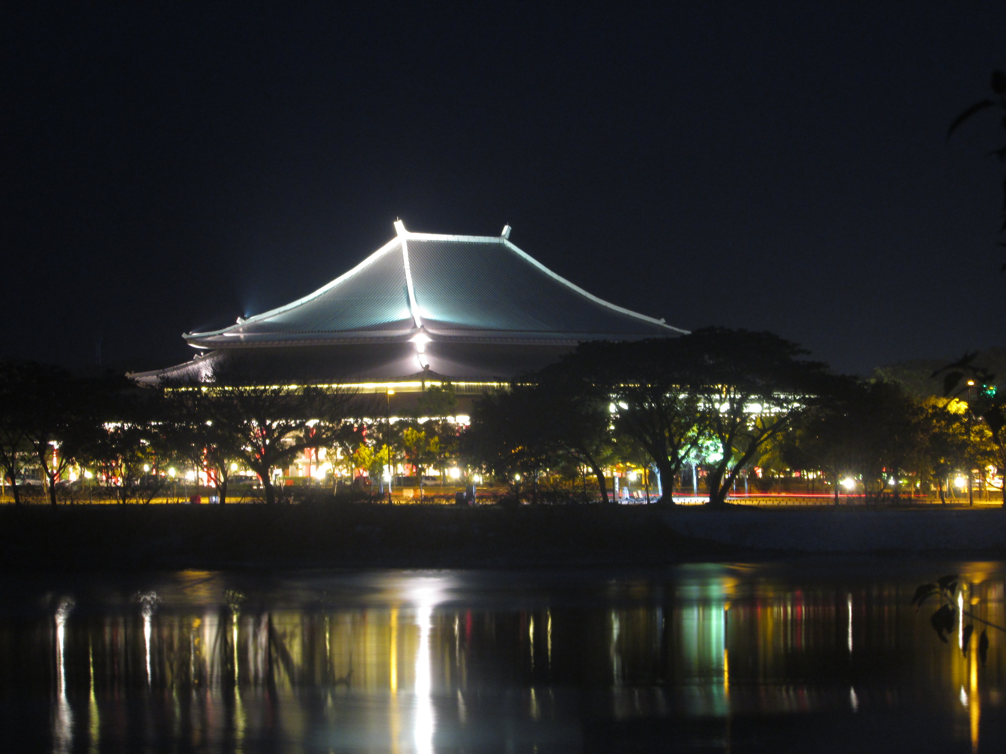 About two times each year, the Universiti Tunku Abdul Rahman Perak Campus will have its landmark hall lighted up - due to convocation. On normal days, the hall looks grand by day but at night it blends in with the darkness. I had not done night photography for a long time, so I decided to go for it while the grand hall was looking its best. The lakeside behind the campus' sports complex is the rarely visited part of campus, but also has one of the most stunning views. A short 3 minute bike ride from the main campus road is all it took.